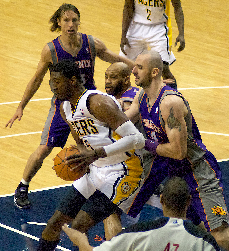 Vince Carter and Steve Nash look on. Taken at Pacers vs. Suns game in Indianapolis, Feb 27, 2011